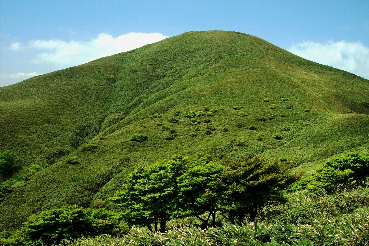 Mount Ryu of Suzuka Mountain seen from north